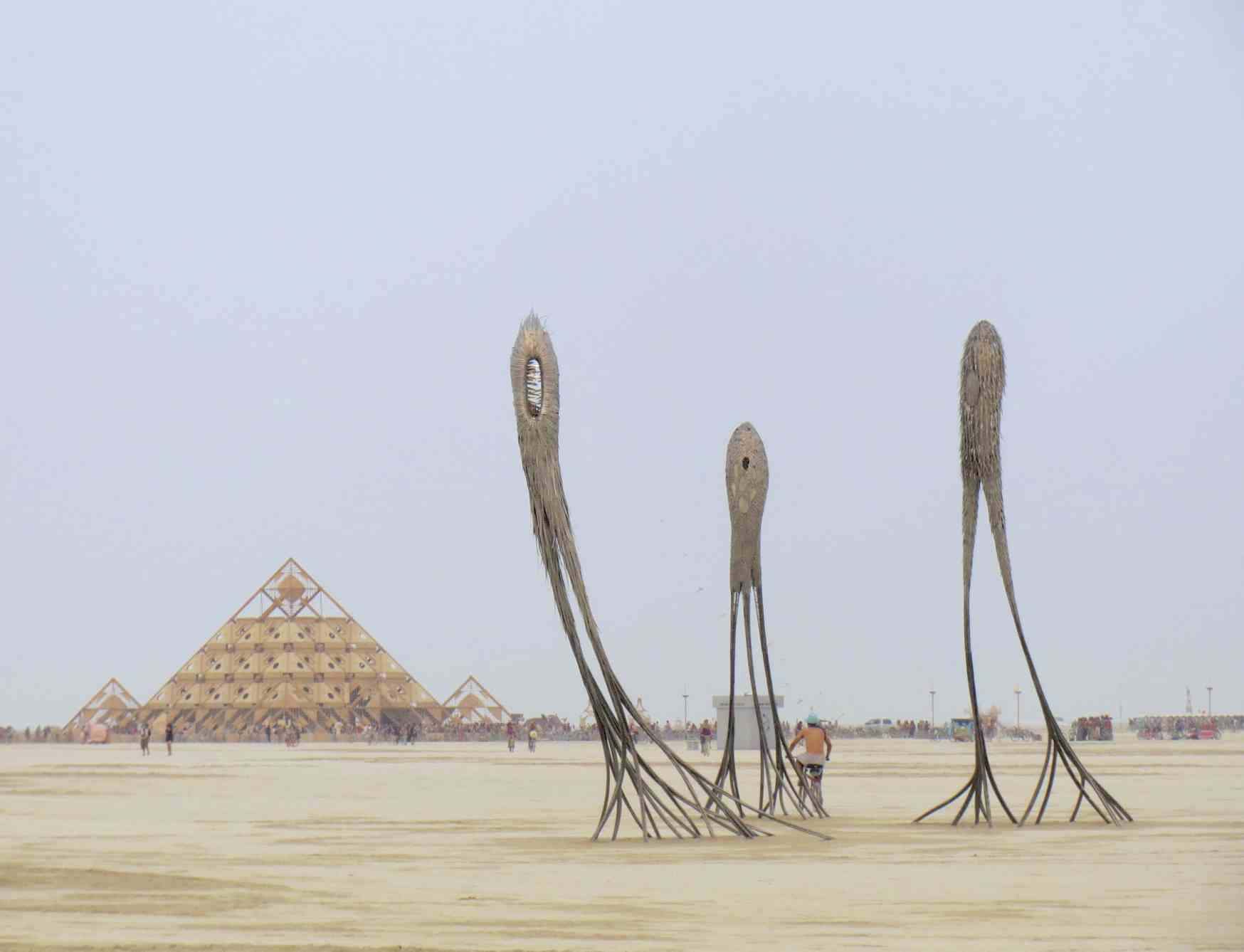 "Elegant bodies slowly gliding across the playa with graceful weightless movement. Free from restraint or support – simply floating adrift without mooring or direction- driven or carried along as by the current, slowly becoming visible, noticed or found. Having thrown off or shed its skin or covering, the sculptures resemble something akin to a raw nerve, a single cell or follicle with loose dendrites branching from a neuron. A nerve in search of a stimulus -a beacon focused into the distance with little awareness of its extended appendages that follow its path." - from